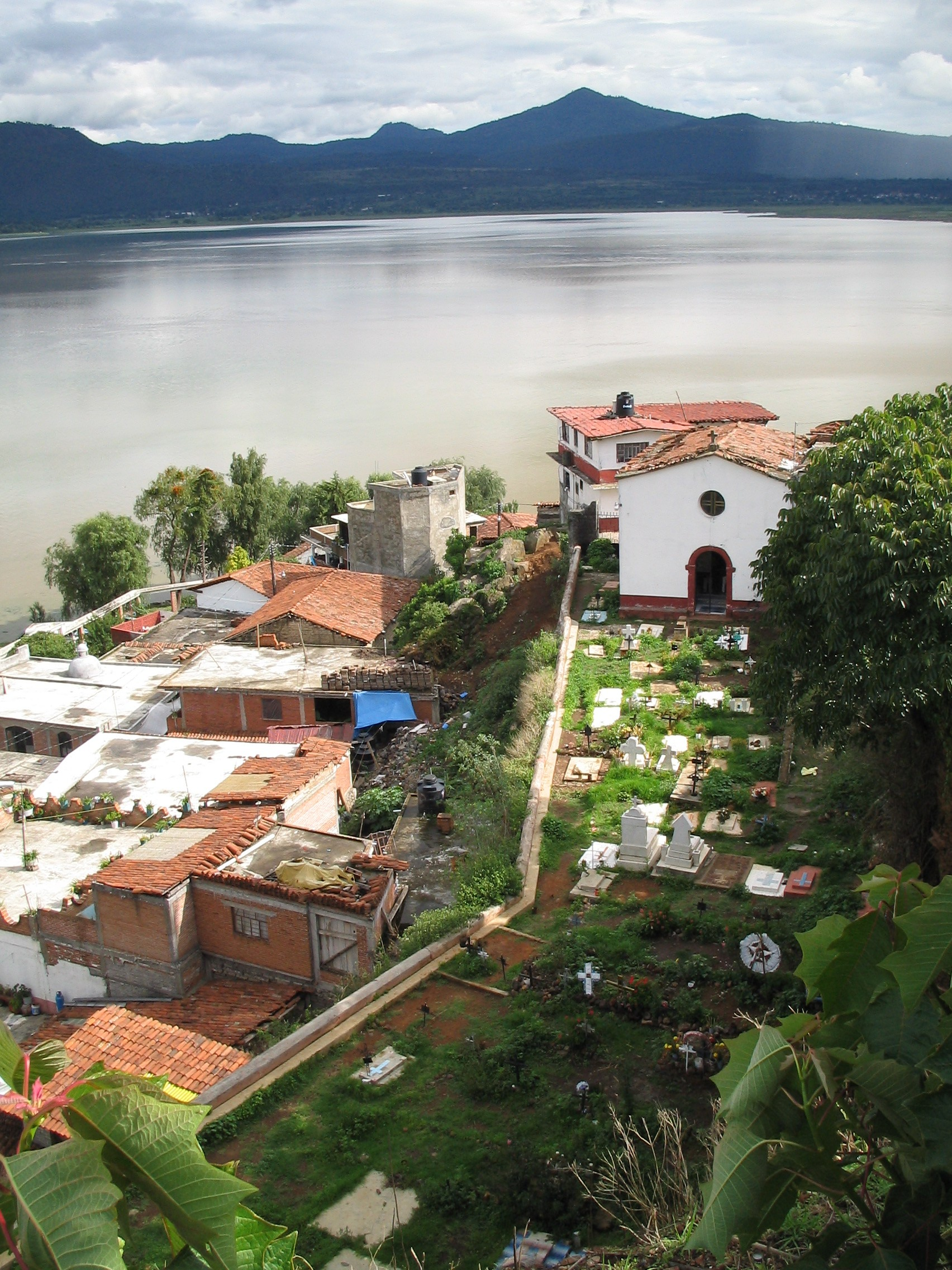 A view on Lago Patzcuaro and Janitzio cemetery